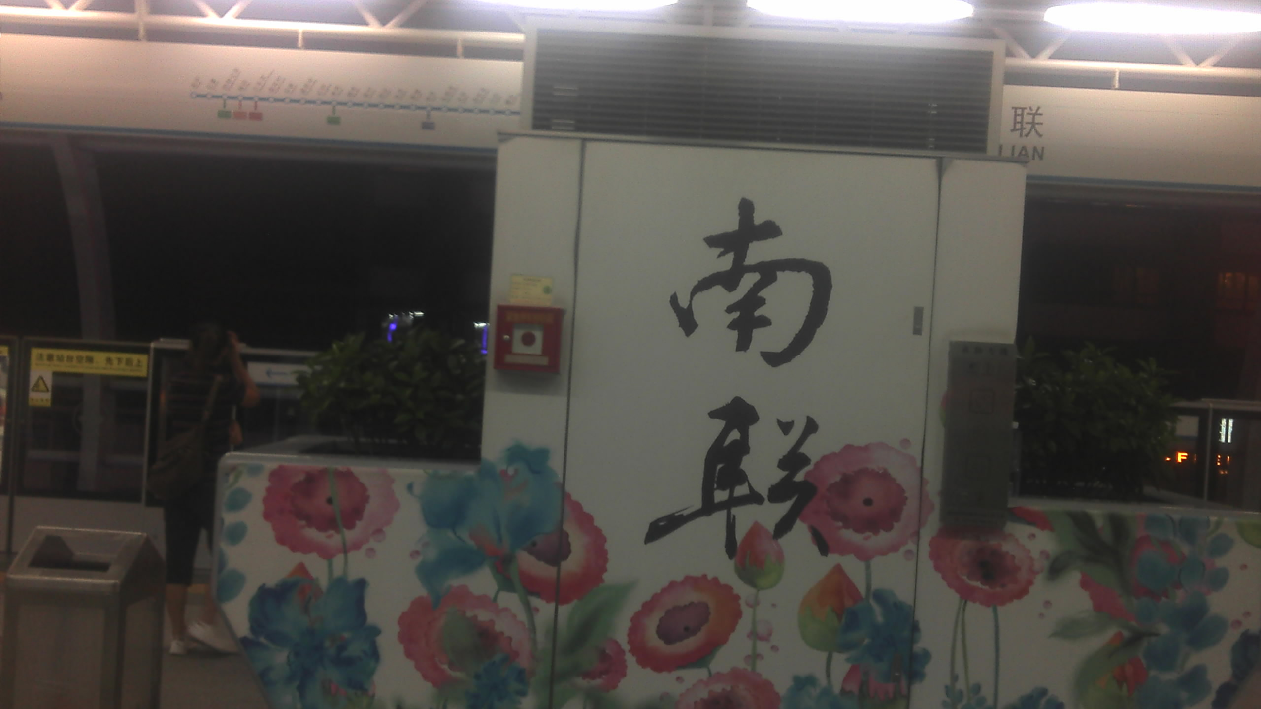 This photo was taken as Oct 2, 2011.